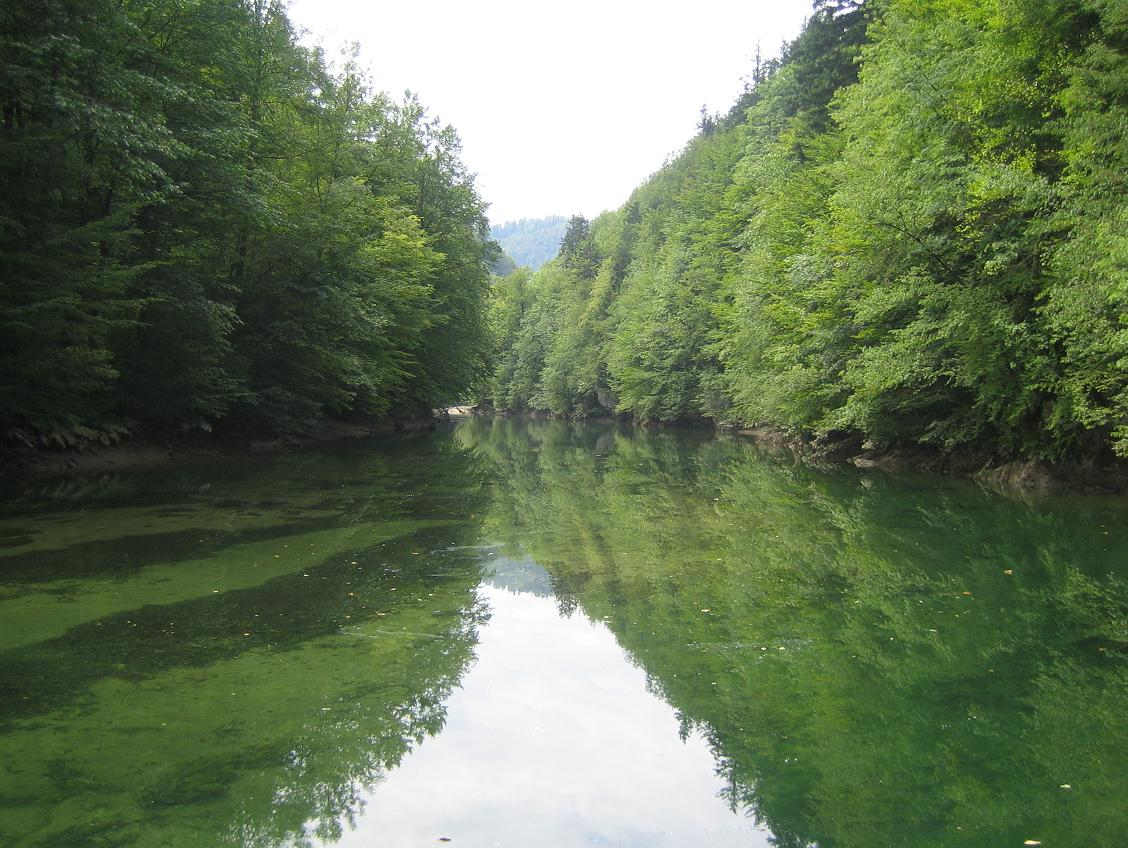 Idrijca river, Slovenija (runs through mining town Idrija) photo:Ziga 06:56, 12 August 2006 (UTC)